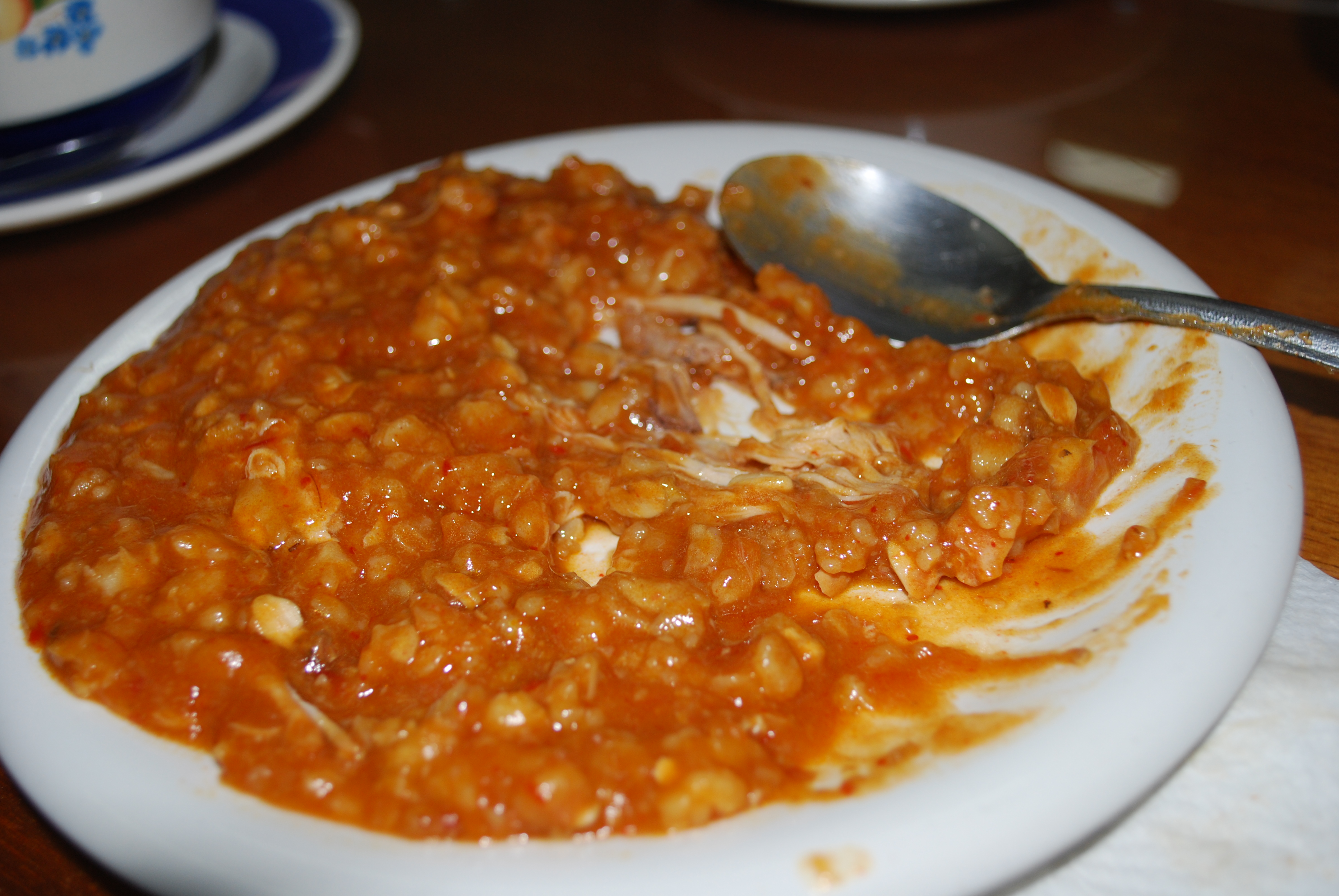 A local dish called sacahuil in Papantla, Veracruz, Mexico. Made with cooked corn, a chili gravy and pork